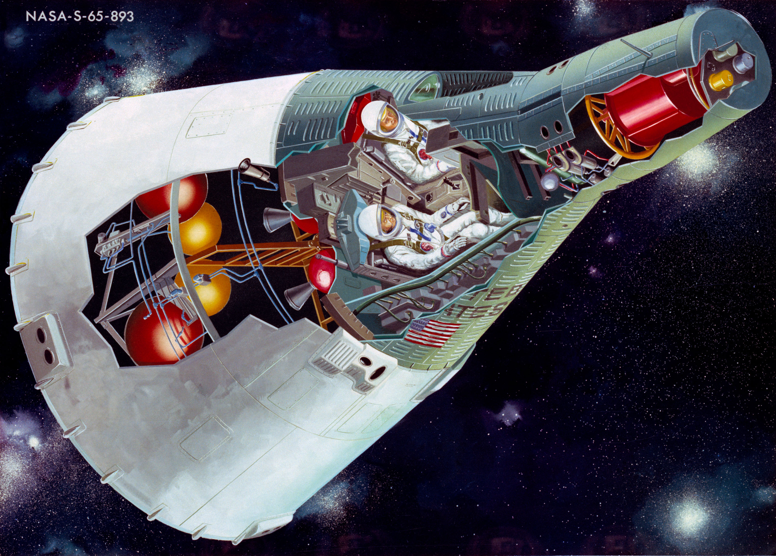 Artist's concept of a two-man Gemini spacecraft in flight, showing a cutaway view.